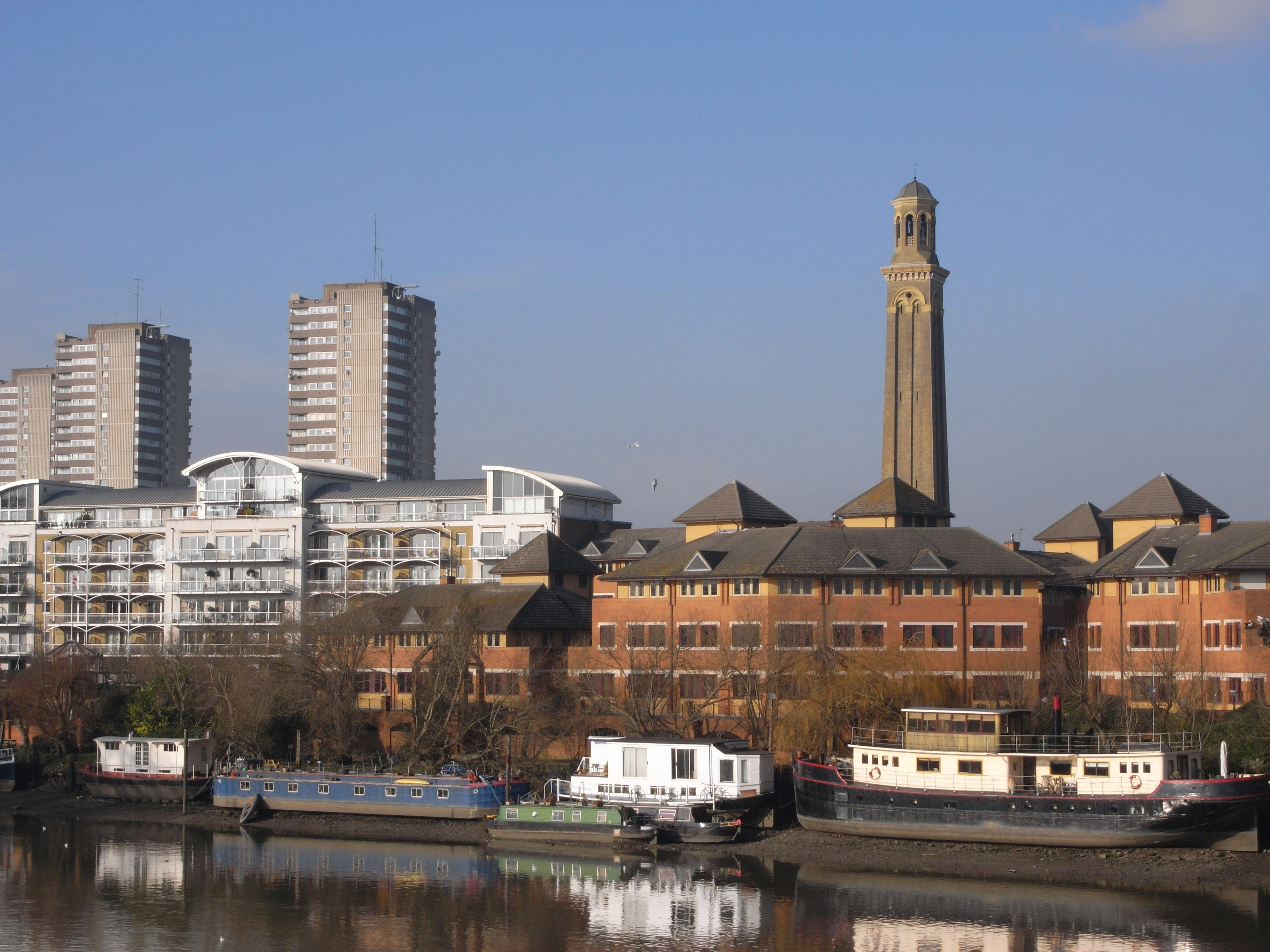 Brentford skyline from Kew Bridge. The prominent tower is the Standpipe Tower at Kew Bridge Steam Museum.